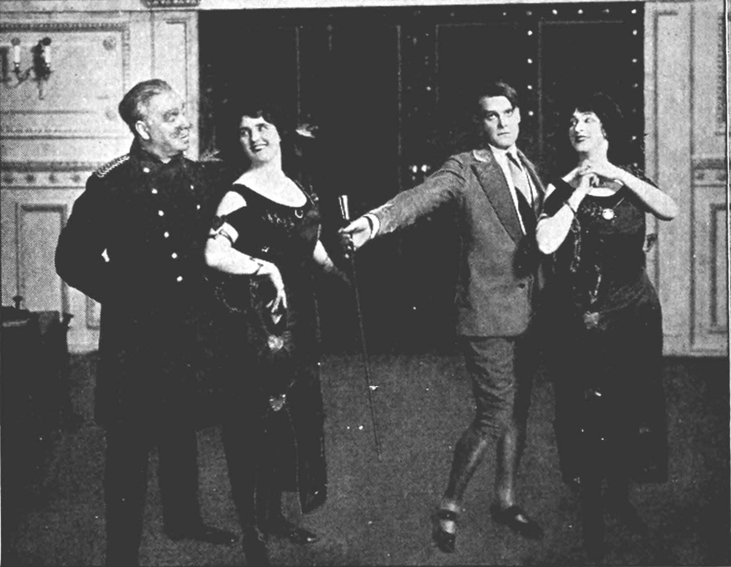 Strauss - Die Fledermaus - Scene from the Merry Countess Title: The Victrola book of the opera : stories of one hundred and twenty operas with seven-hundred illustrations and descriptions of twelve-hundred Victor opera records Year: 1917 (1910s) Authors: Victor Talking Machine Company Rous, Samuel Holland Subjects: Operas Publisher: Camden, N.J. : Victor Talking Machine Co. Text Appearing Before Image: heme,Rosalind forgives her husband andall ends happily. The Victor offers a finemedley from this delightfulopera, famous for its entrancing PH0T0 *HITE scene from the merry countess melodies, its gaiety and the delicate beauty of the score. In the recent revival under thetitle Merry Countess, the plot was revised, and tells of a count who is arrested afteran auto accident and sentenced to five days in jail. This jail is the liveliest spot in town forthat period of time, and matters come to a climax when the warden arrives, finds a ball inprogress, and is himself arrested and locked up. The Victor Opera Company gives an attractive presentation of this version, containingportions of eight of the principal numbers. Gems from Merry Countess1 Chorus, The Hours Fly By—Duet, So, My Pet, Dont Fret—Solo andChorus, Well I Never —Trio, Married Life —Solo, King Champagne —Trio, Faithless One—Chorus, Oh, What a Night—Chorus, Darling, DoBy the Victor Opera Company 31875 12-inch, $1.00 Text Appearing After Image: '